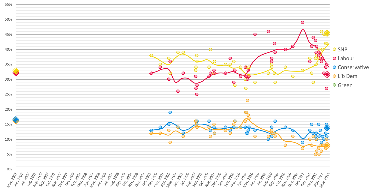 Opinion polling for the 2011 Scottish Parliament election (constituency vote) with average 30 day trendline.